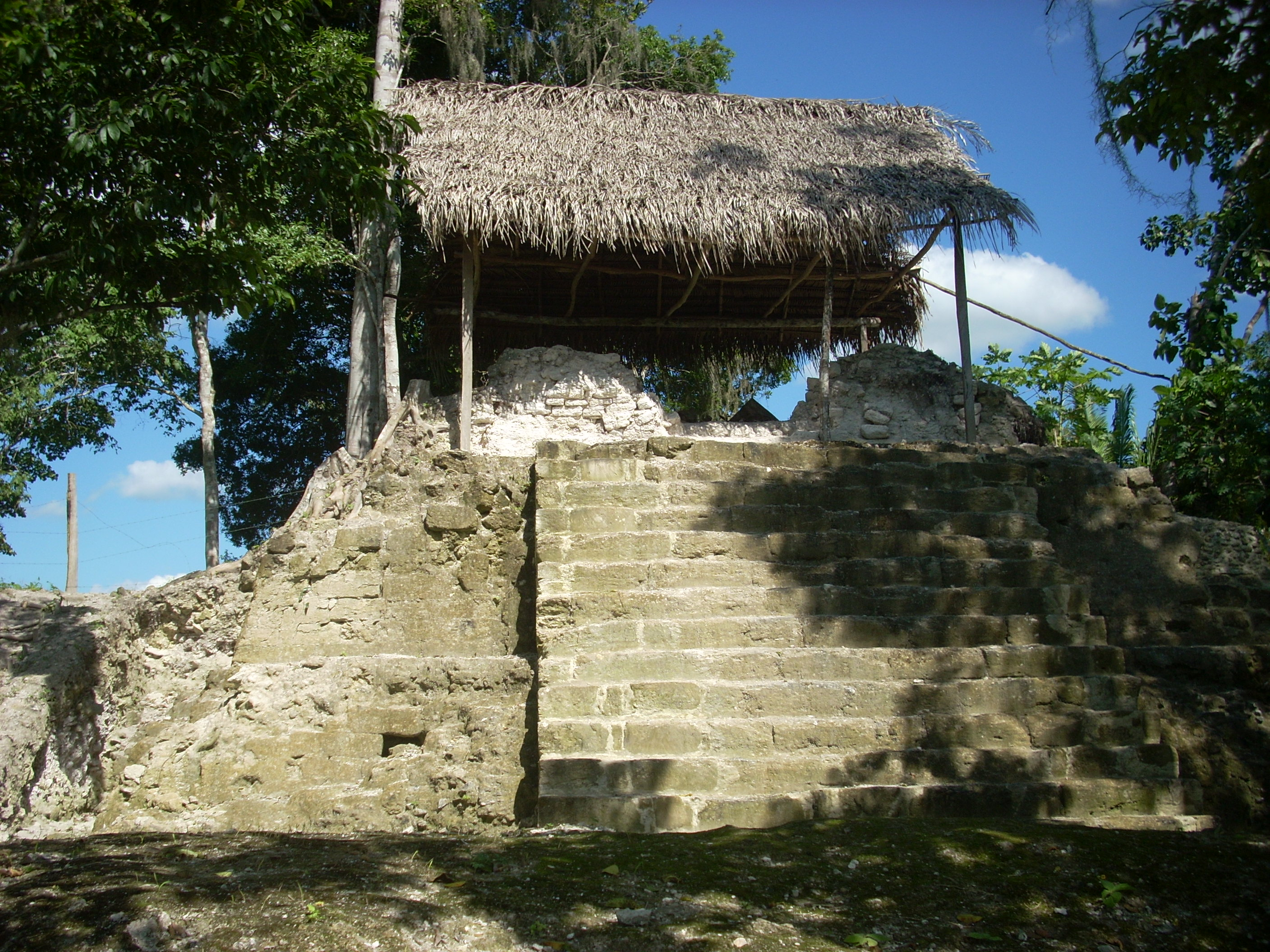 Pyramid in the South Group, La Blanca, Petén, Guatemala.